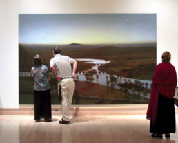 Visitors at the Metropolitan Museum in New York City in front of Stephen Hannock’s 96 x 144 in. (243.8 x 365.8 cm) painting The Oxbow: After Church, after Cole, Flooded (Flooded River for the Matriarchs E. & A. Mongan), Green Light, 2000. (Acrylic with oil glazes on canvas.) Photo by James Prochnik.